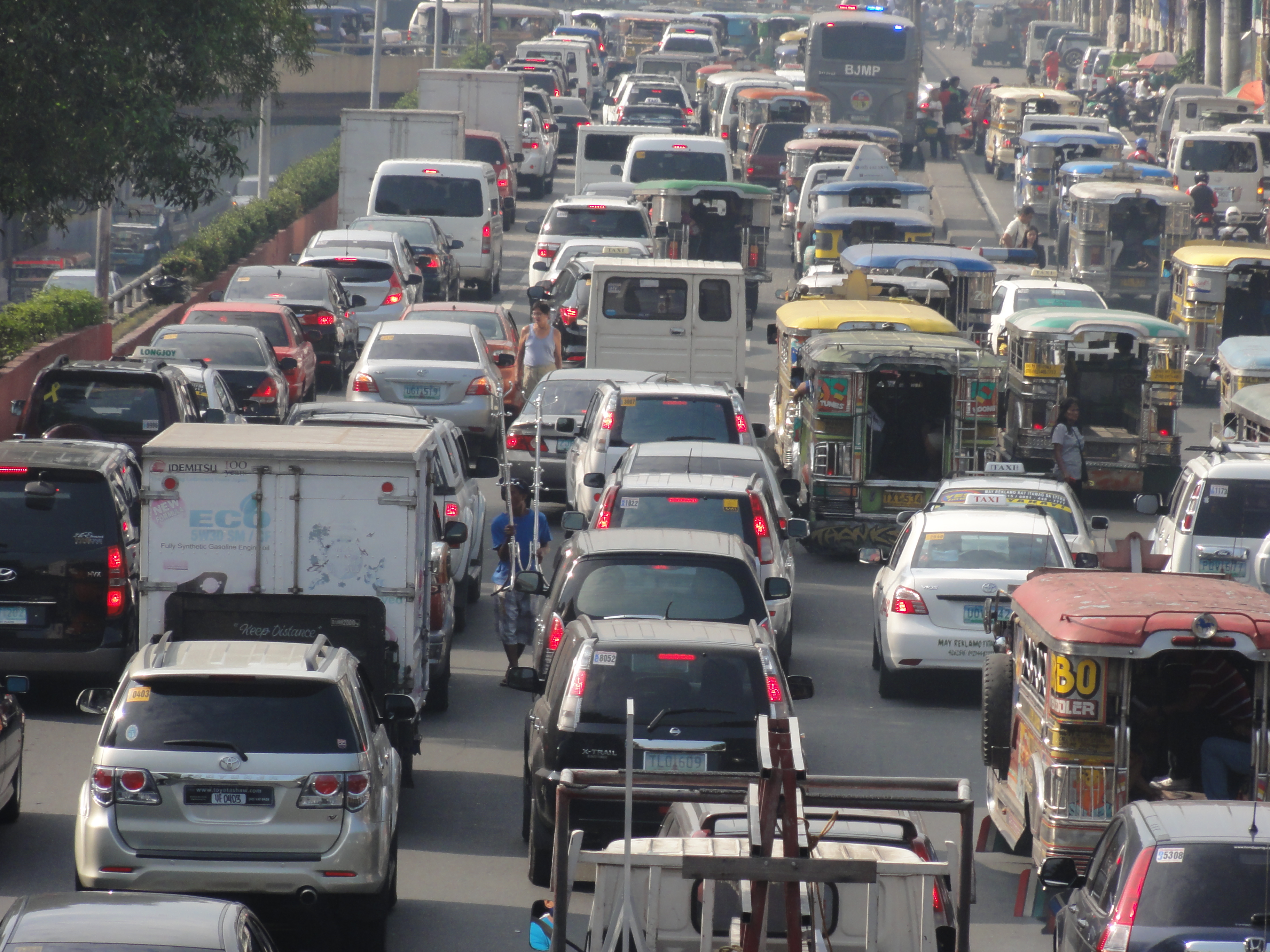 Heavy road traffic along Andalucia Street, Sampaloc, Manila